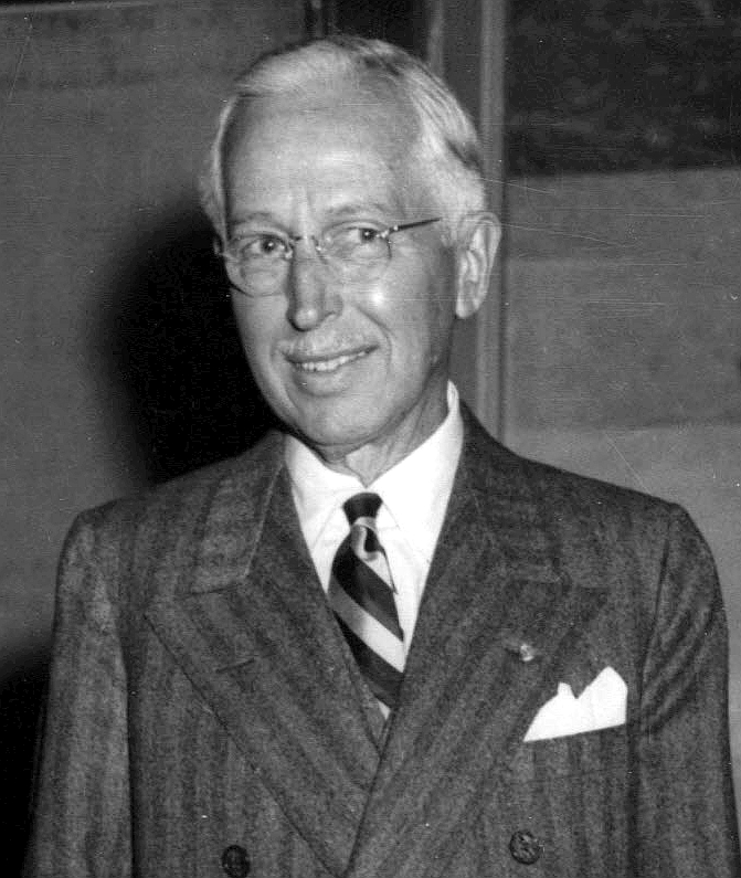 Photograph of Mr. Karl Hoblitzelle and the Archivist of the United States, Dr. Wayne Grover, Shaking Hands after Accepting State Flag of Texas, Accompanied by Senator Paul Wakefield.